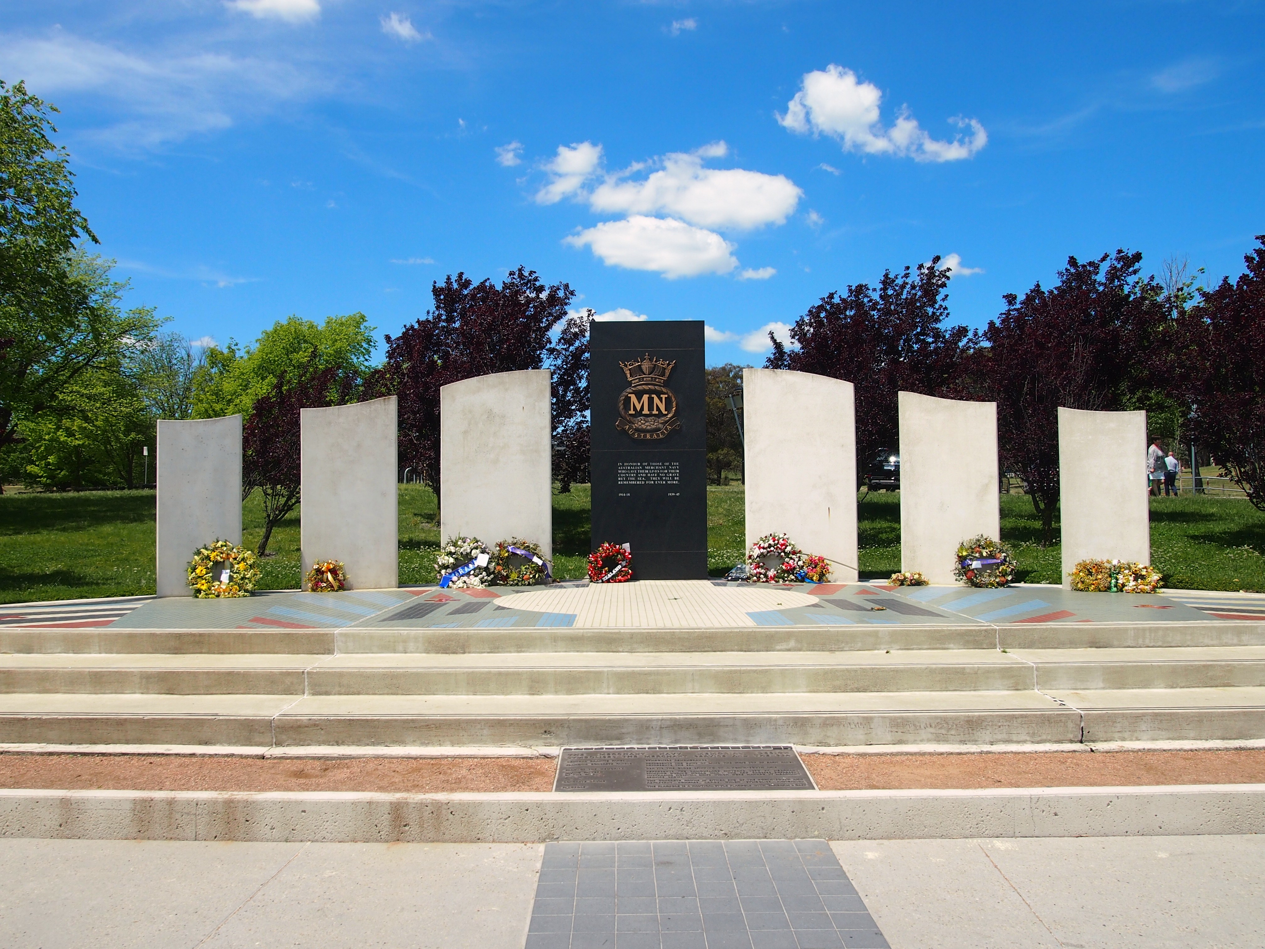 The Australian Merchant Navy Memorial in November 2012